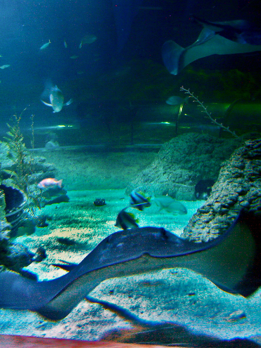 A stingray taken at the main tank in the Aquarium of Western Australia.